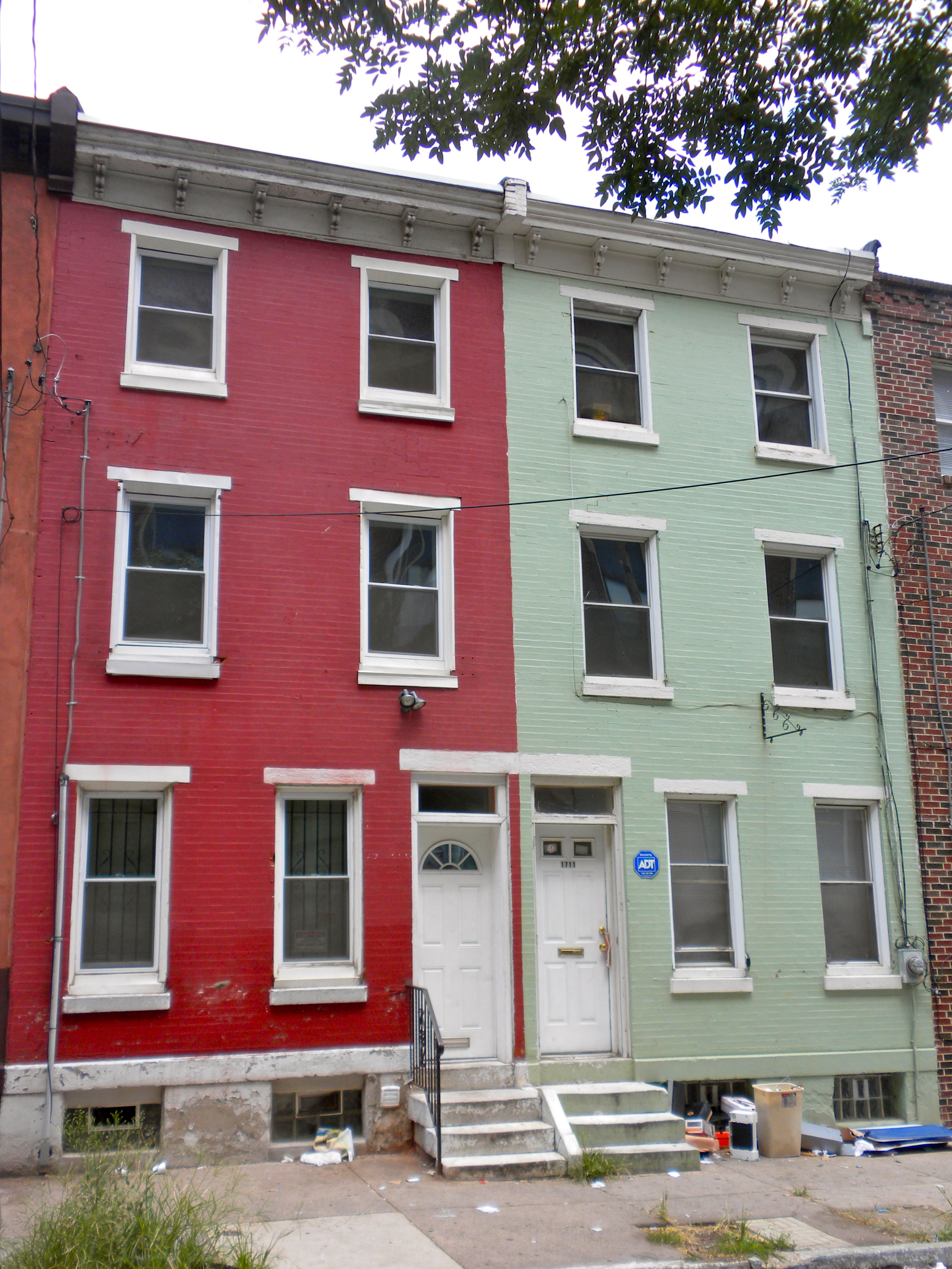 Girard Avenue Historic District in Philadelphia on the NRHP since October 31, 1985. HD includes 1415–2028 Girard Ave. and 1700 block of Thompson St. This particular house is 1711 (Green house) and probably 1713 (Red house) Thompson Street in Cabot neighborhood of North Philly.